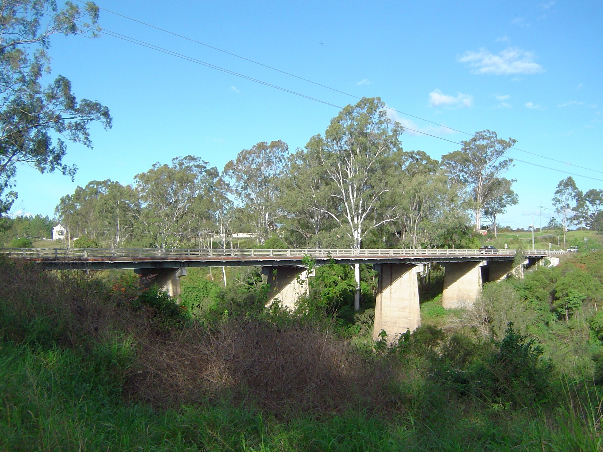 Photo of Maclean Bridge from Tully Memorial Park at North Maclean Logan City, Queensland, Australia.